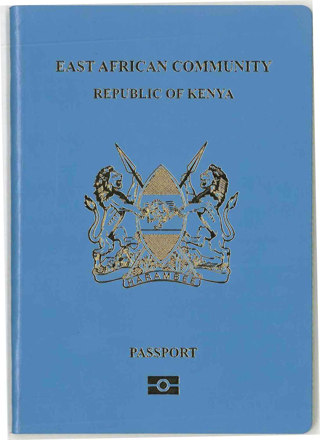 Kenyan E-passport Kiswahili: pasi ya kielektroniki ya kenya